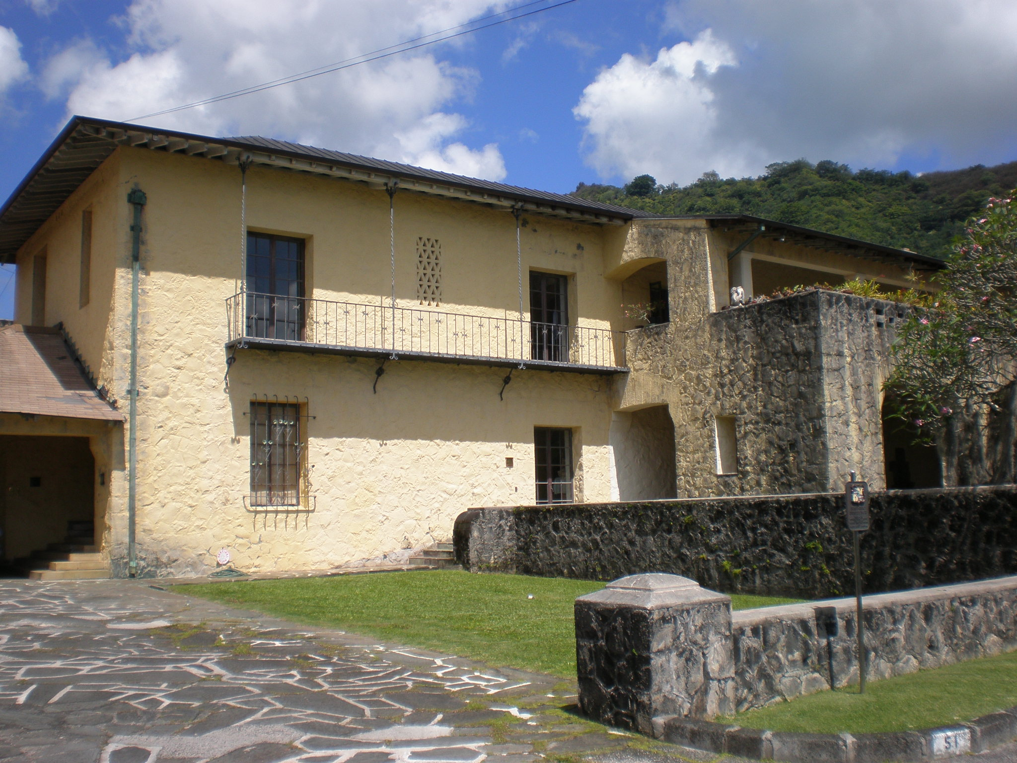 Facade and corner of Lihiwai. 51 Kepola Place, Honolulu, Hawaii. On the National Register of Historic Places.